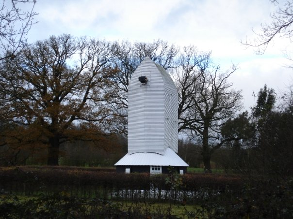 The Lowfield Heath Windmill without sails